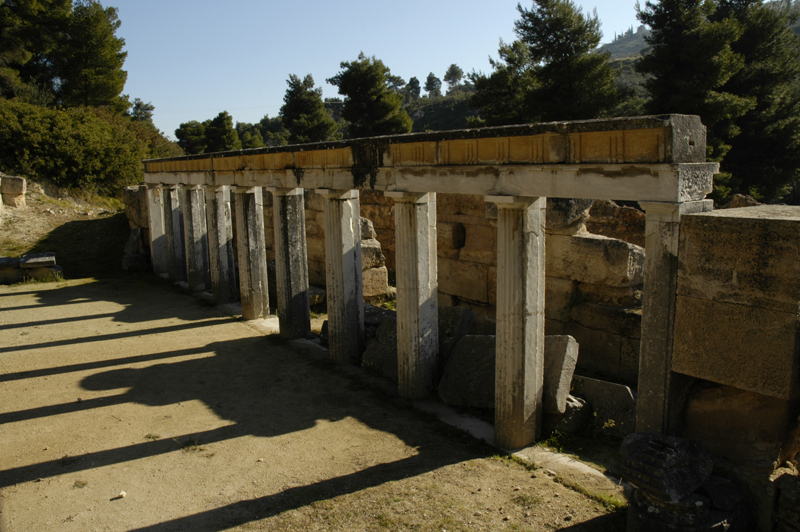 J. M. Harrington, personal digital image